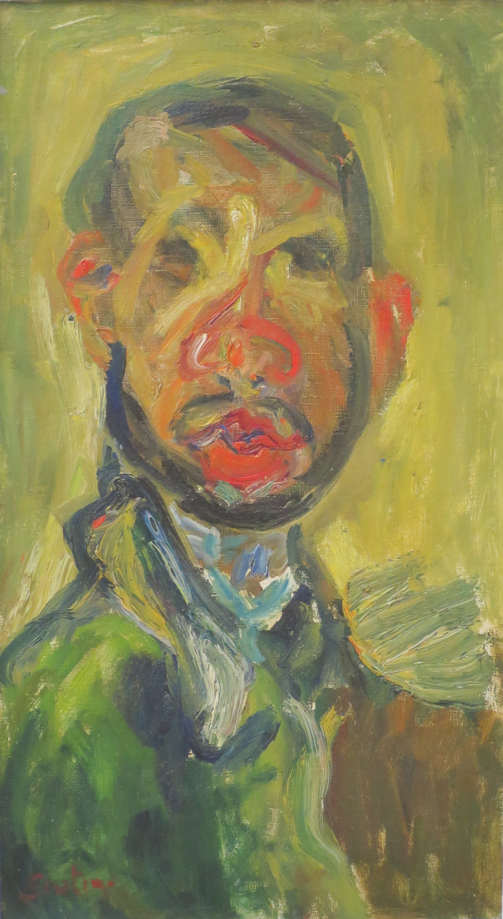 Self Portrait by Chaim Soutine, 1916, Hermitage